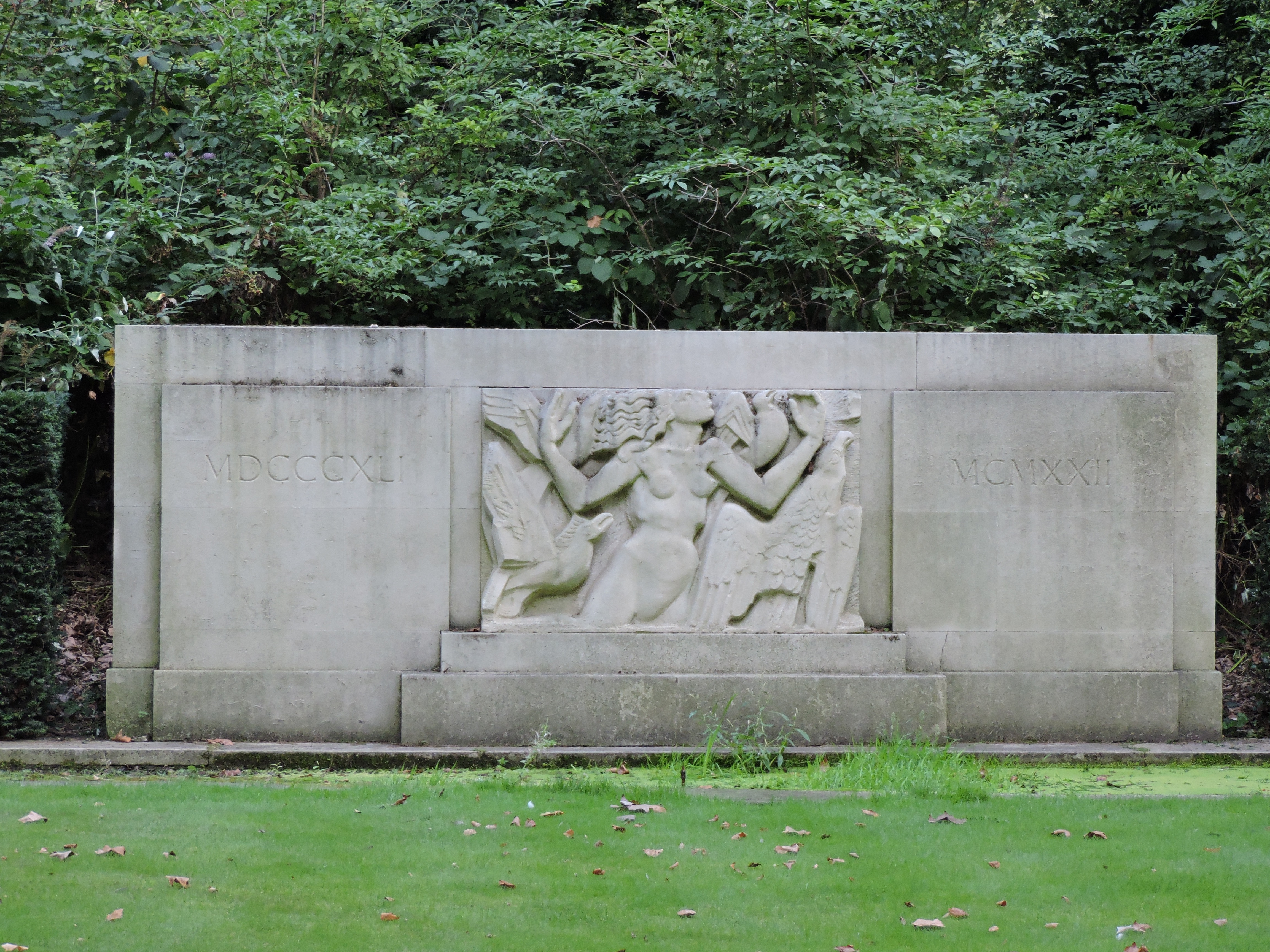 Jacob Epstein "The Hudson Memorial Bird Sanctuary" (1924), located in Hyde Park, London